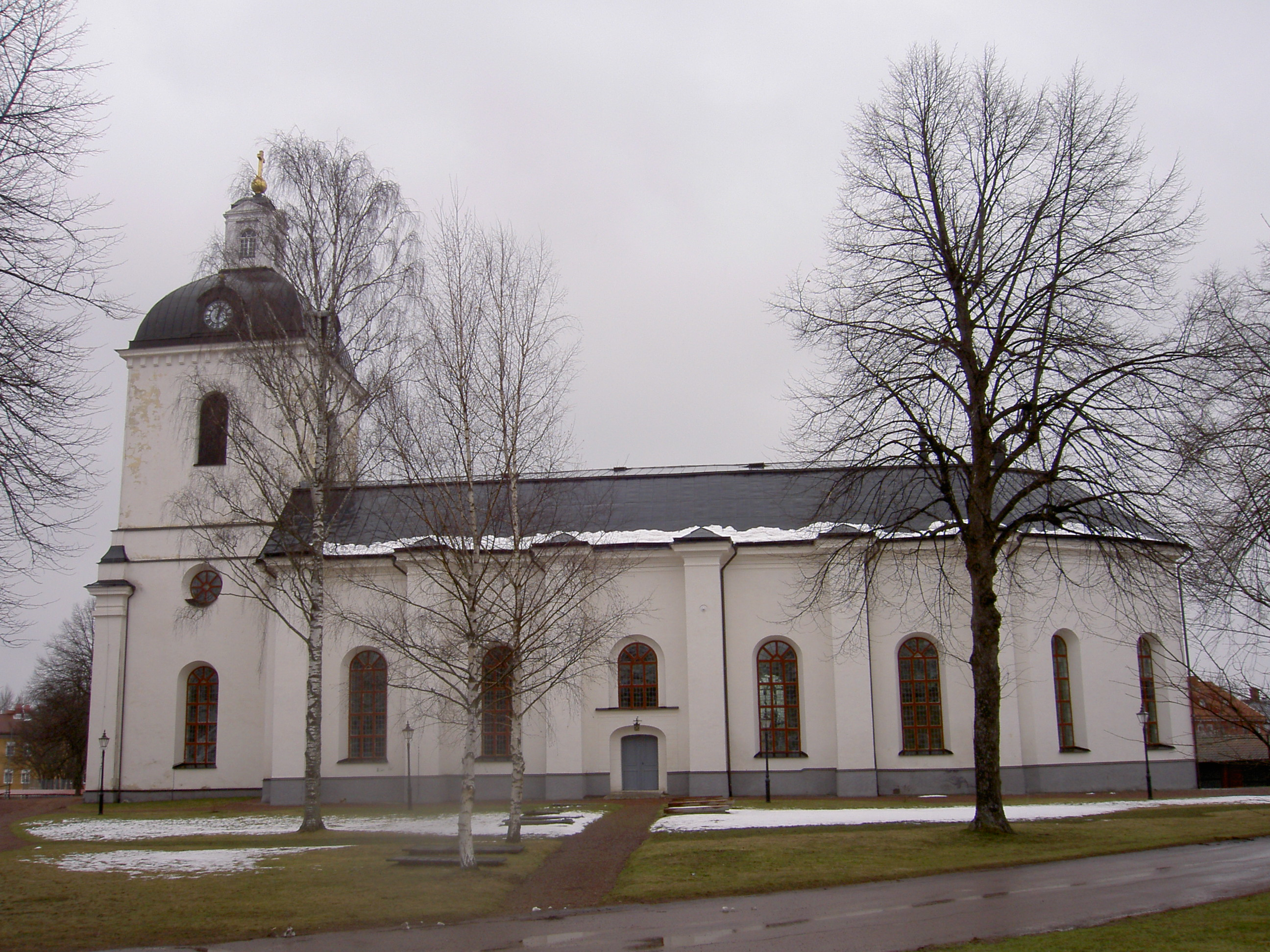 Säter's Church, Säter, Sweden